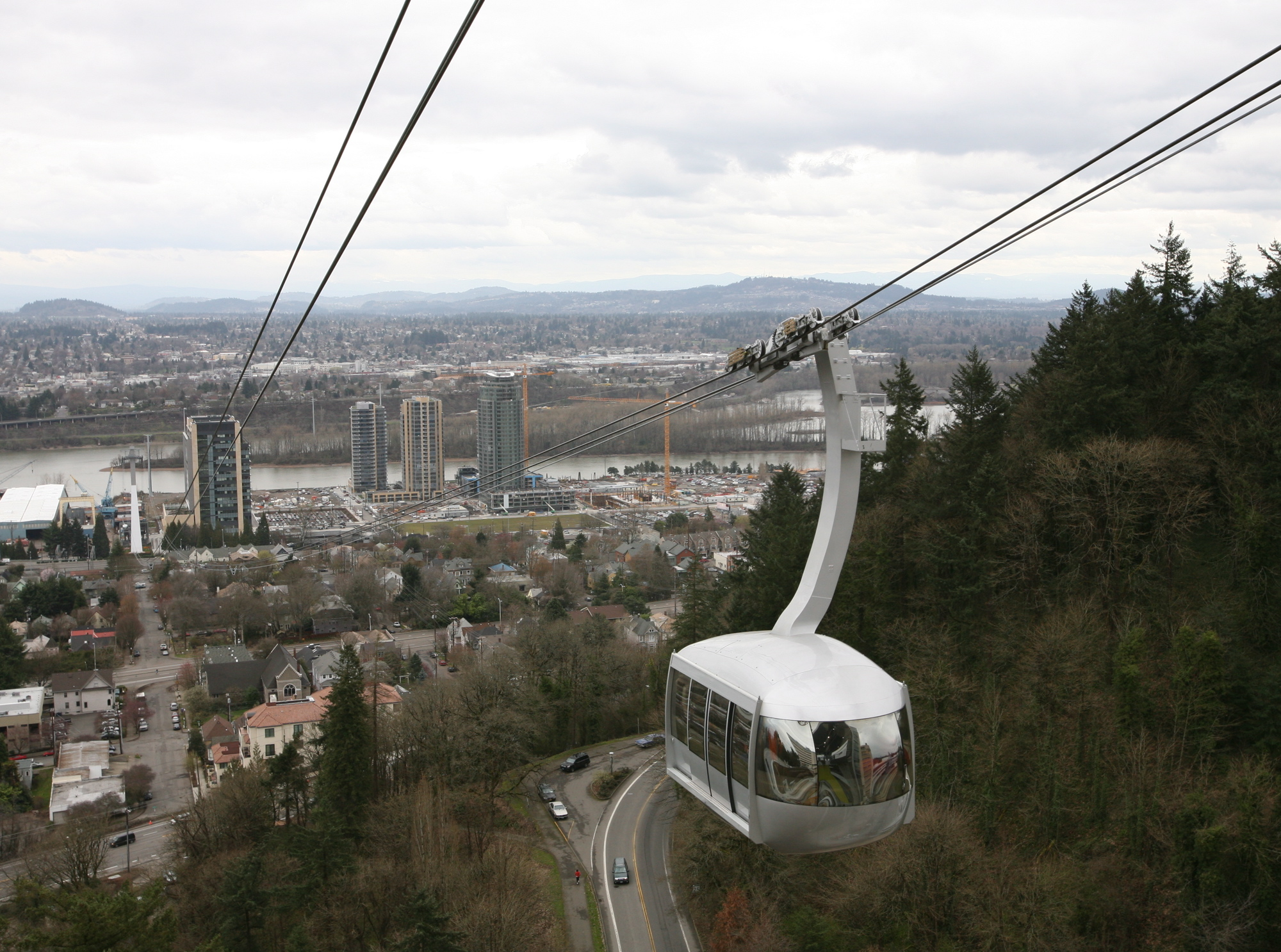 The Portland Aerial Tram car "Walt" as it nears the upper station.